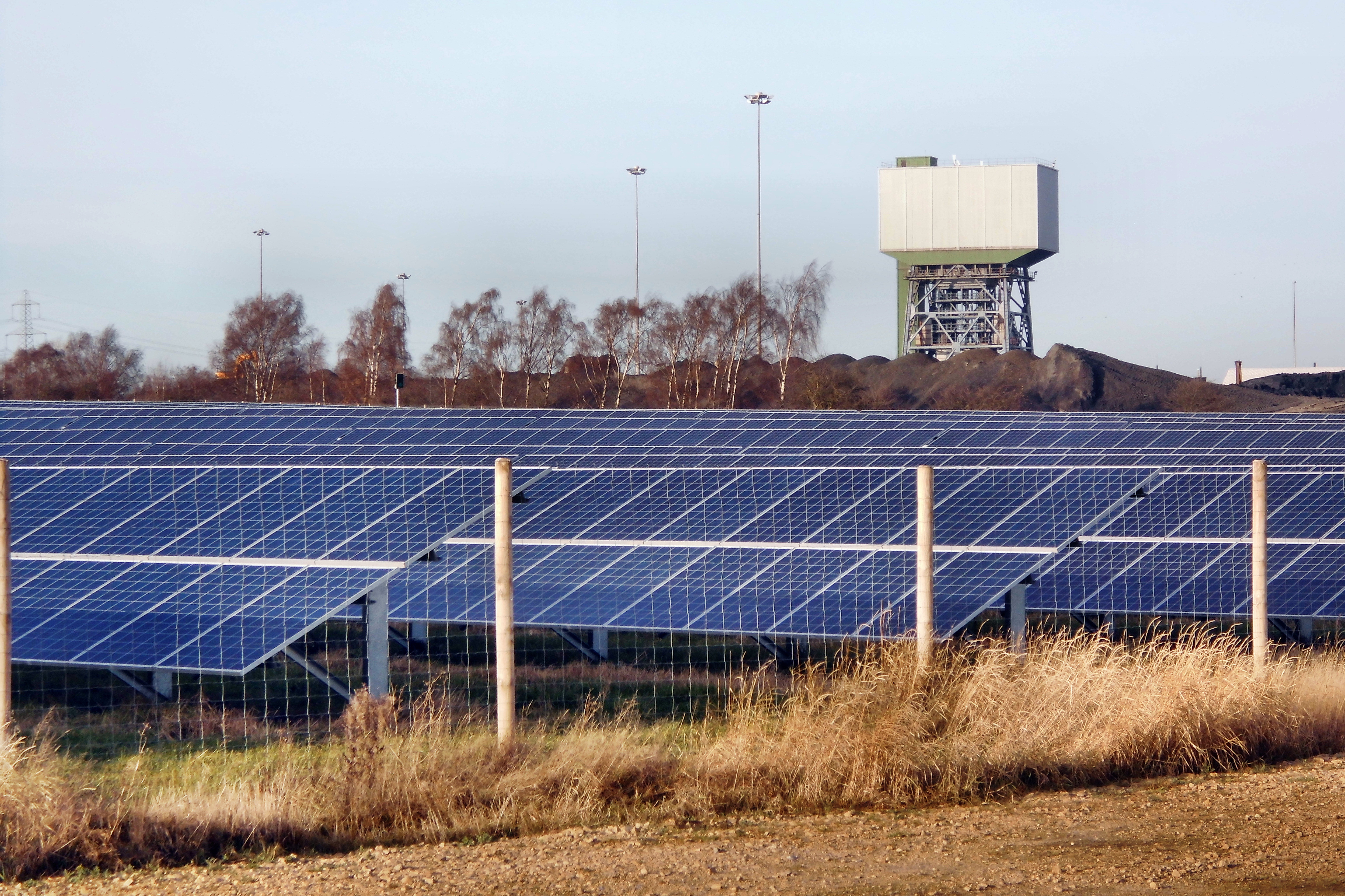 Alternative power